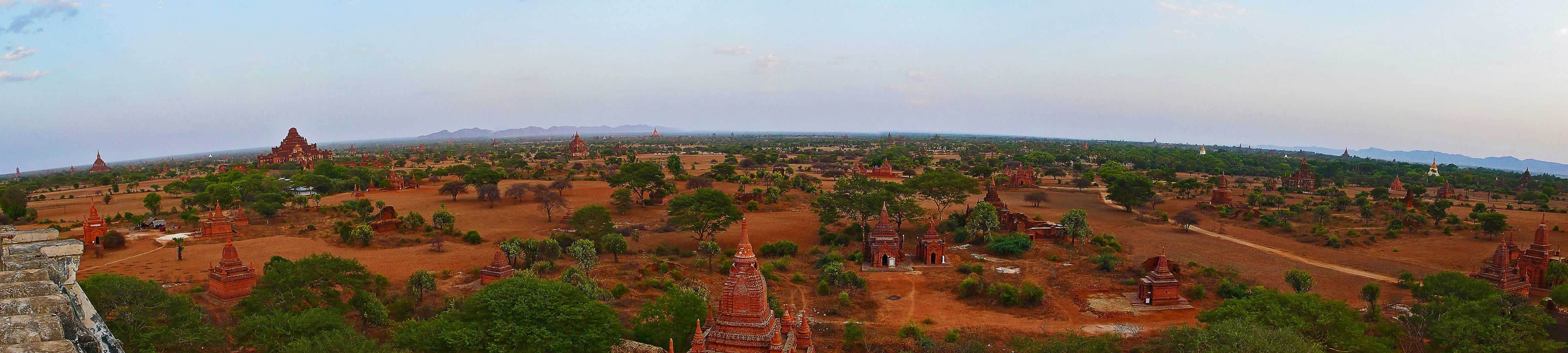 Bagan panorama view, Myanmar